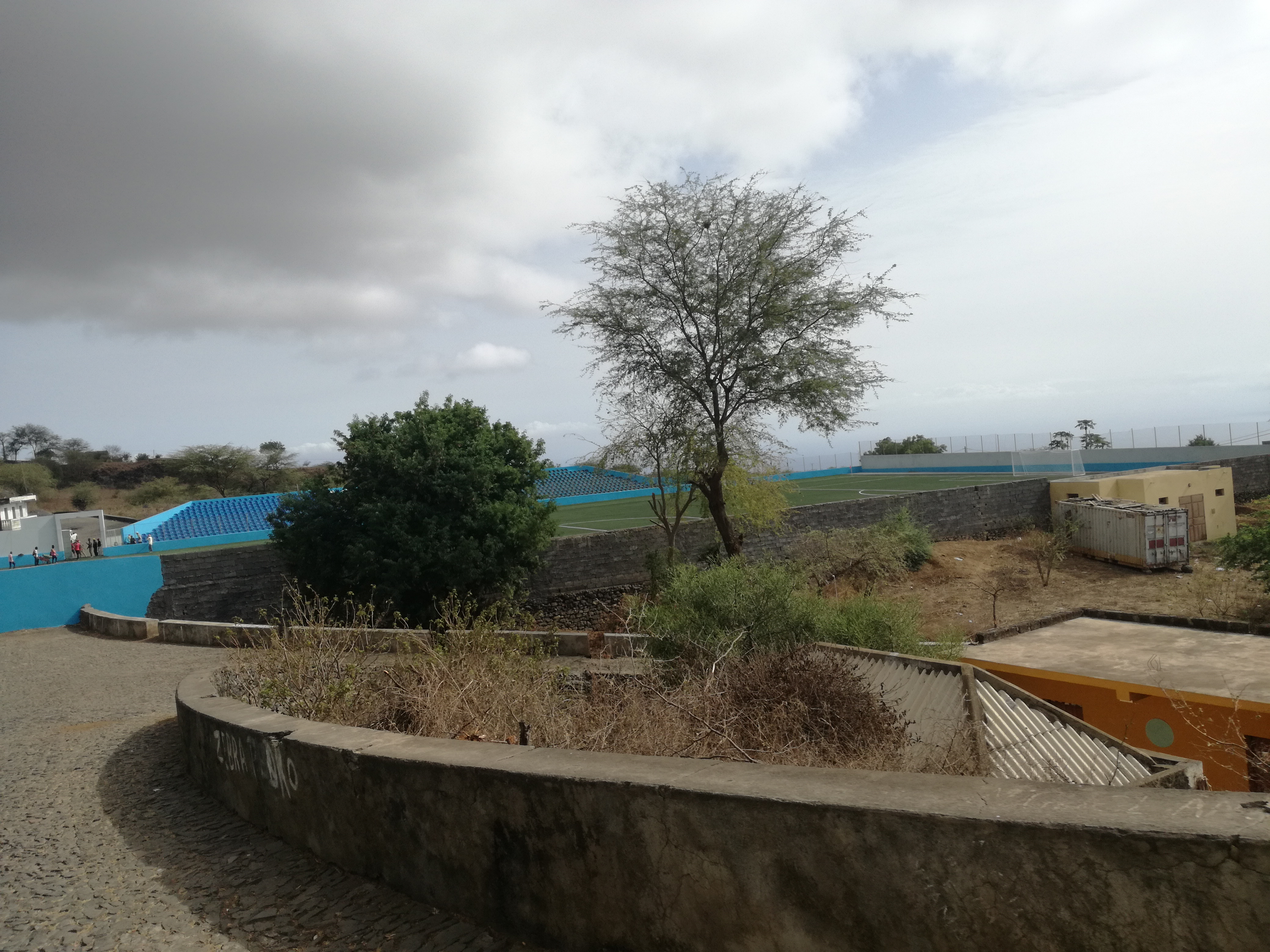 View of São Lourenço Stadium